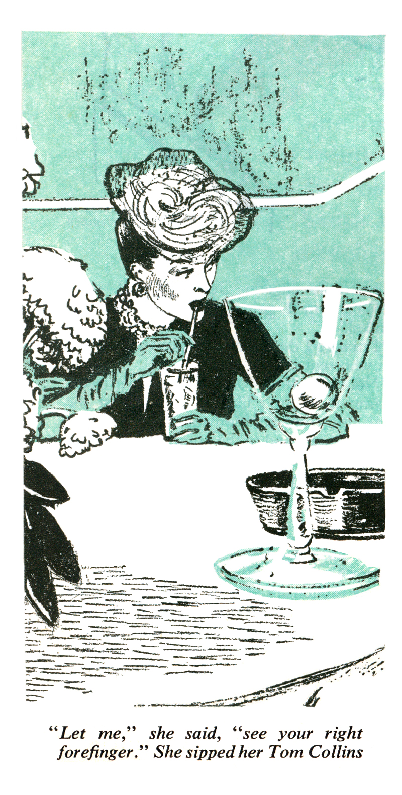 Illustration for "Help Wanted, Male", a Nero Wolfe story by Rex Stout that first appeared in The American Magazine